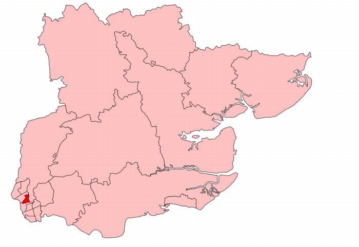 A map of Leyton East constituency within Essex, as it existed from 1918 to 1950.